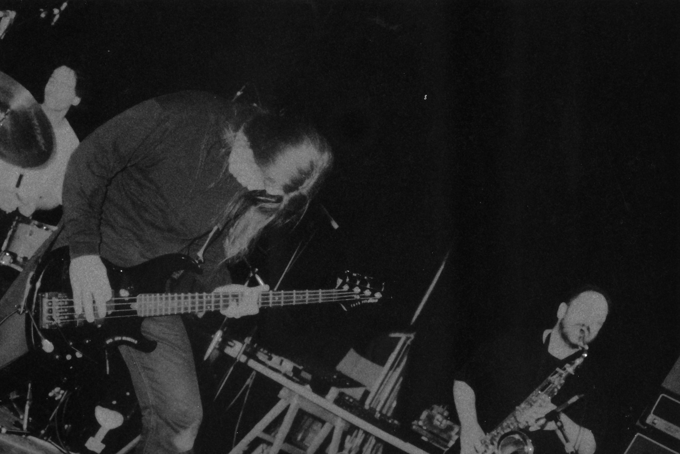 16-17 Alex Buess, Damian Bennett, Michael Wertmueller, 1995 at Taktlos Festival